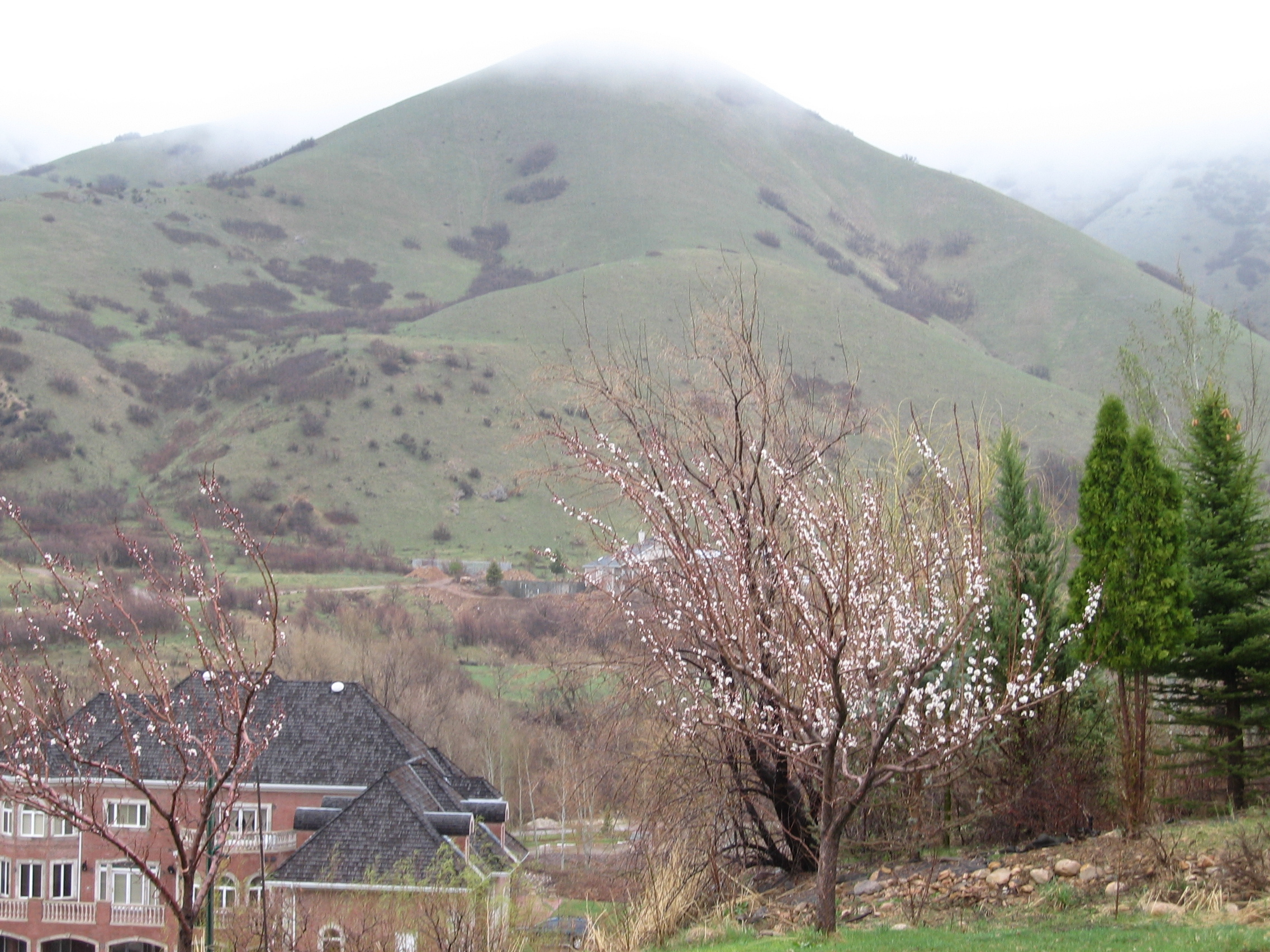 Mountains east of Springiville, Utah, part of the Wasatch Range, as viewed from Mapleton.